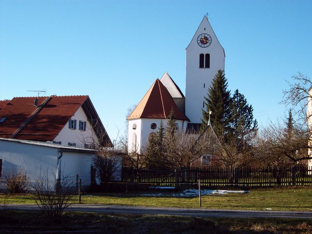 Hohenfurch, view of the Parish Church of the Assumption from east.